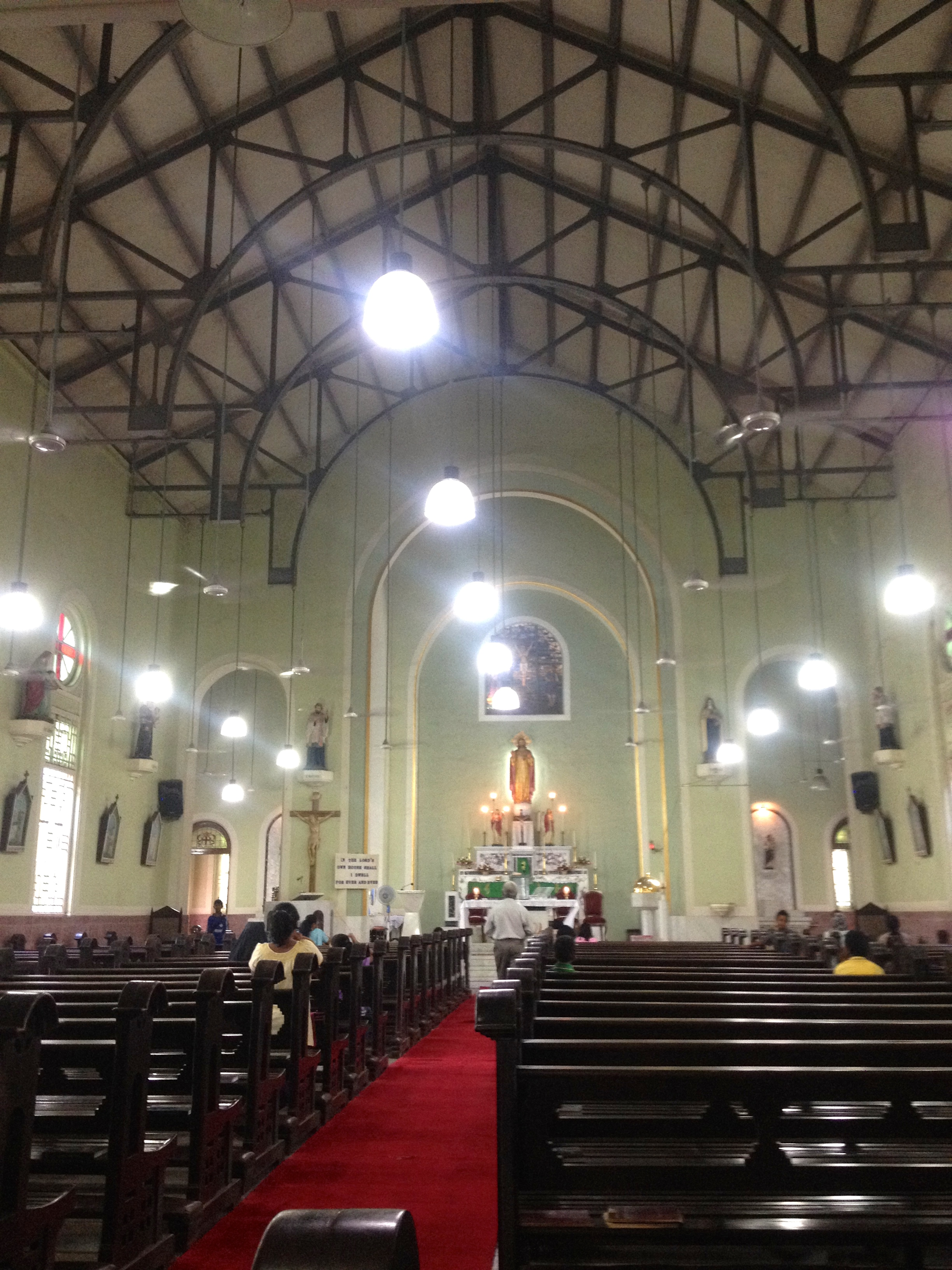 Sacred Heart Church Santacruz interiors